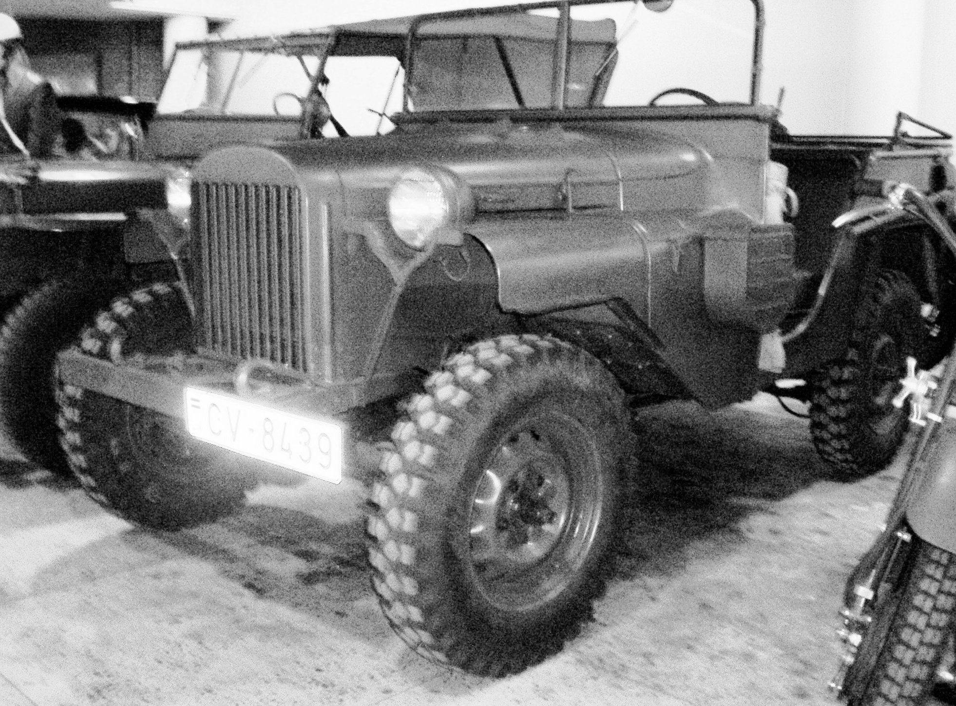 A 1941 GAZ-64. The first all-terrain vehicle made in the Soviet Union. Only 646 GAZ-64 were made between autumn 1941 and summer 1942. It was succeded by the more popular GAZ-67 and GAZ-67B. This vehicle is from a prototype run and restoed by AAK member K. Kriebergs. Total weight is 1200 kg. It is powered by a 3285 cc, inline-4 engine giving 50 hp and a top speed of 100 km/h.